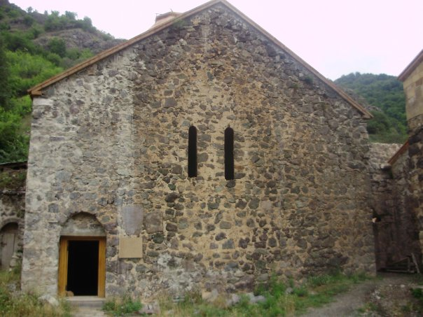 Dadivank Monastery in Shahumian region, Nagorno-Karabakh Republic.